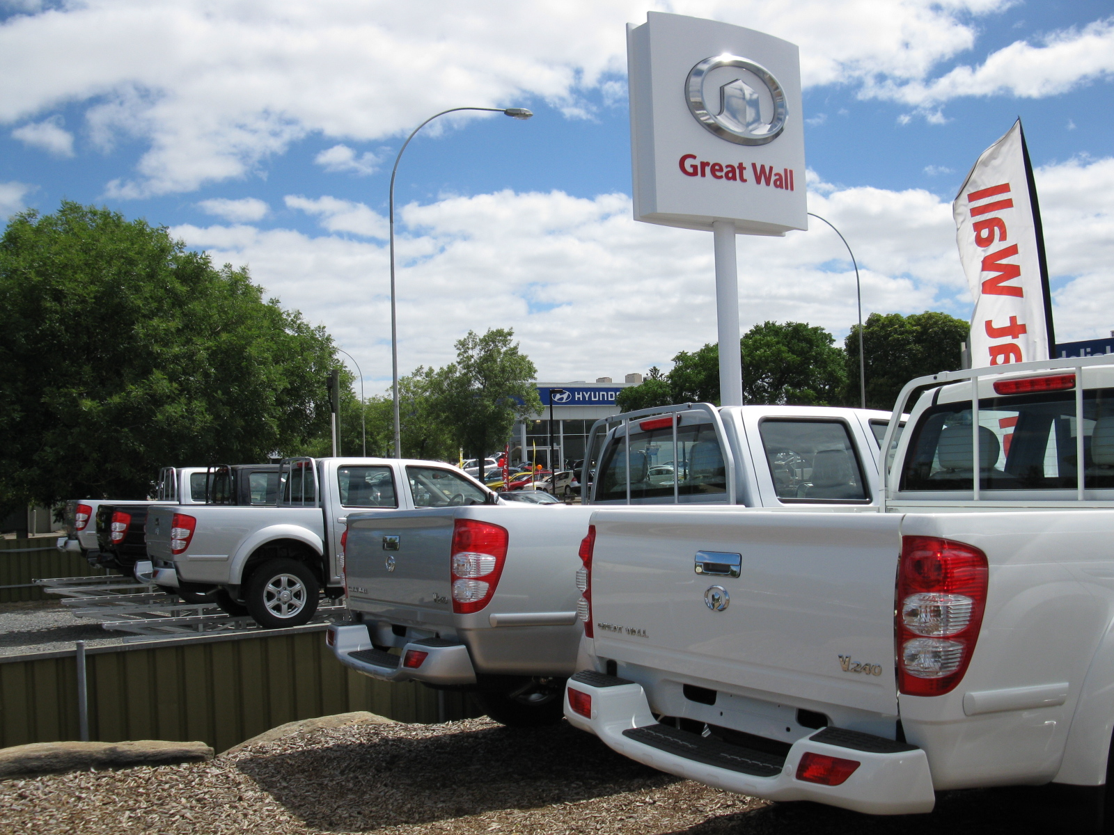 Great Wall Motors Australian spec V240 known as Wingle or Steed.